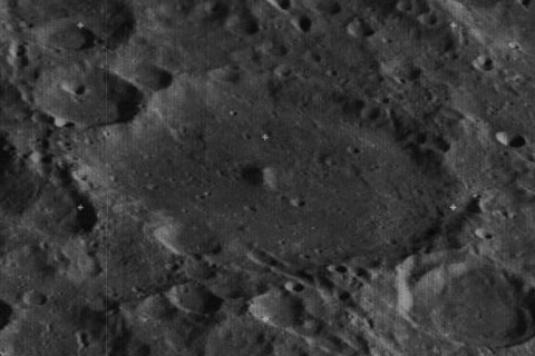 Oblique view of Van der Waals crater, on the far side of the moon, facing roughly south.